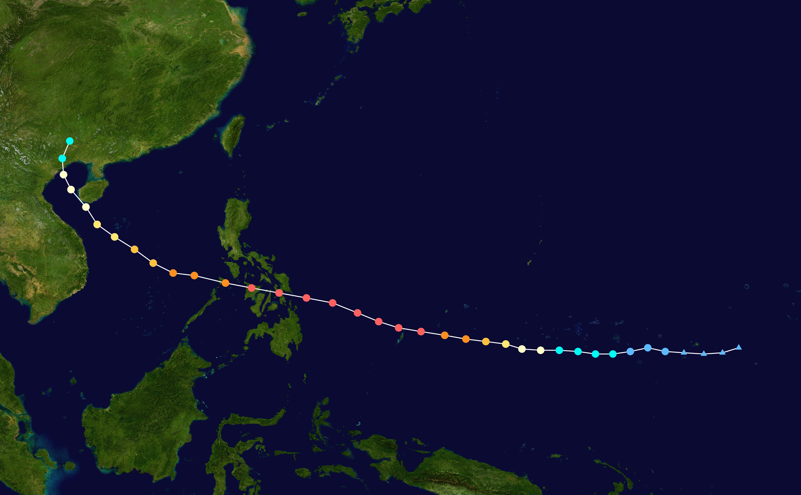 Track map of Typhoon Haiyan of the 2013 Pacific typhoon season. The points show the location of the storm at 6-hour intervals. The colour represents the storm's maximum sustained wind speeds as classified in the Saffir–Simpson scale (see below), and the shape of the data points represent the nature of the storm, according to the legend below. Saffir–Simpson scale Tropical depression≤38 mph≤62 km/h Category 3111–129 mph178–208 km/h Tropical storm39–73 mph63–118 km/h Category 4130–156 mph209–251 km/h Category 174–95 mph119–153 km/h Category 5≥157 mph≥252 km/h Category 296–110 mph154–177 km/h Unknown Storm type Tropical cyclone Subtropical cyclone Extratropical cyclone / Remnant low / Tropical disturbance / Monsoon depression